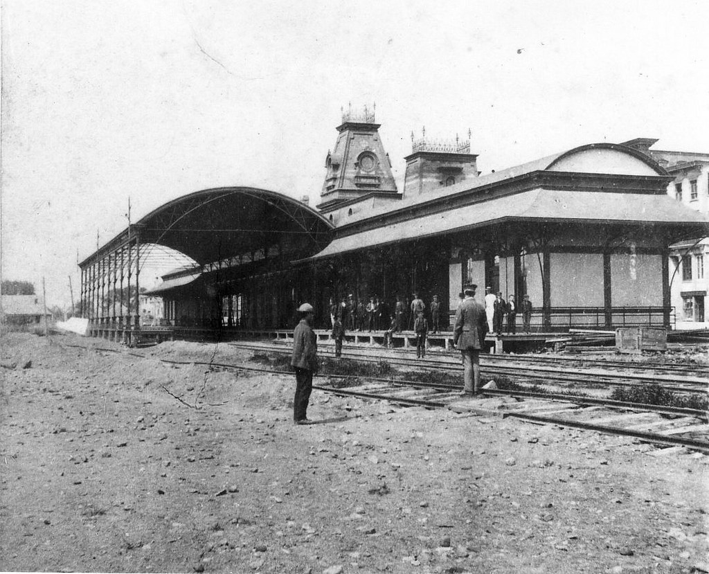 Market Street station in Lynn under construction around 1872